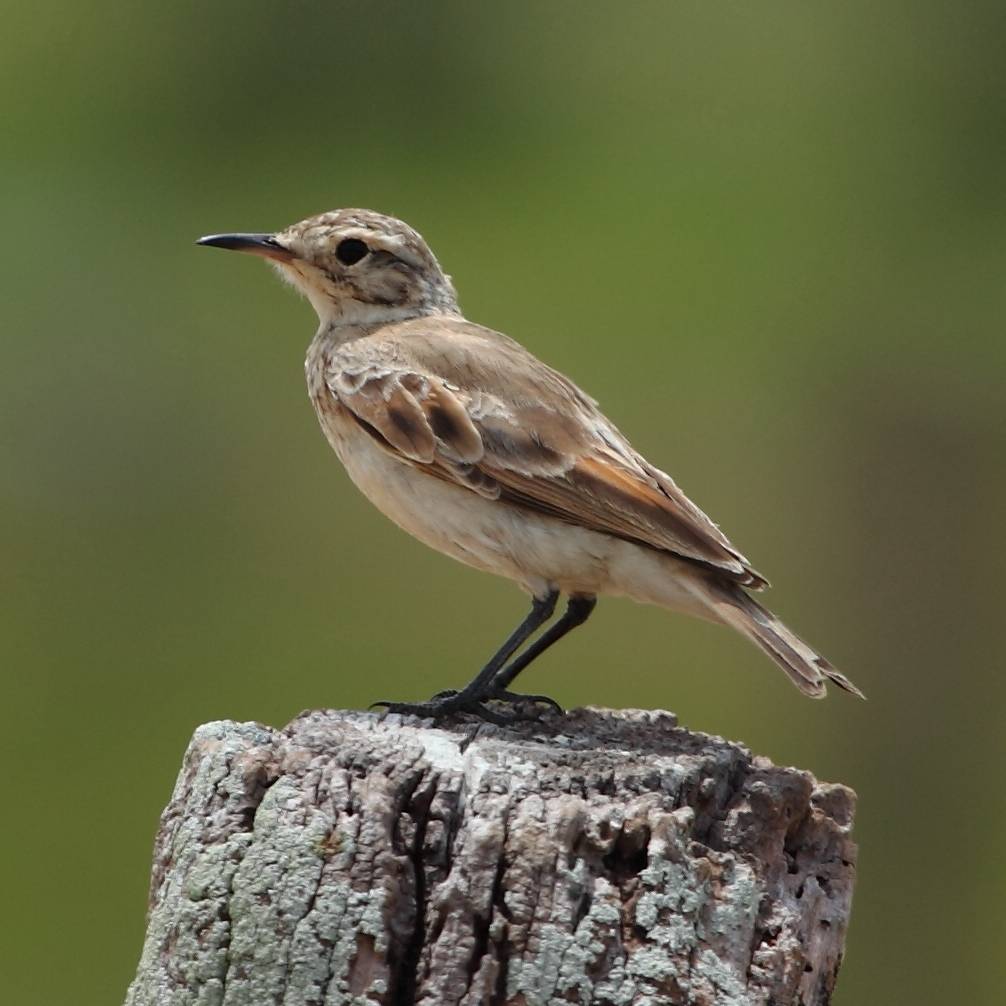 Geositta cunicularia_Common Miner at Lagoa do Peixe National Park-Tavares-RS-Brazil